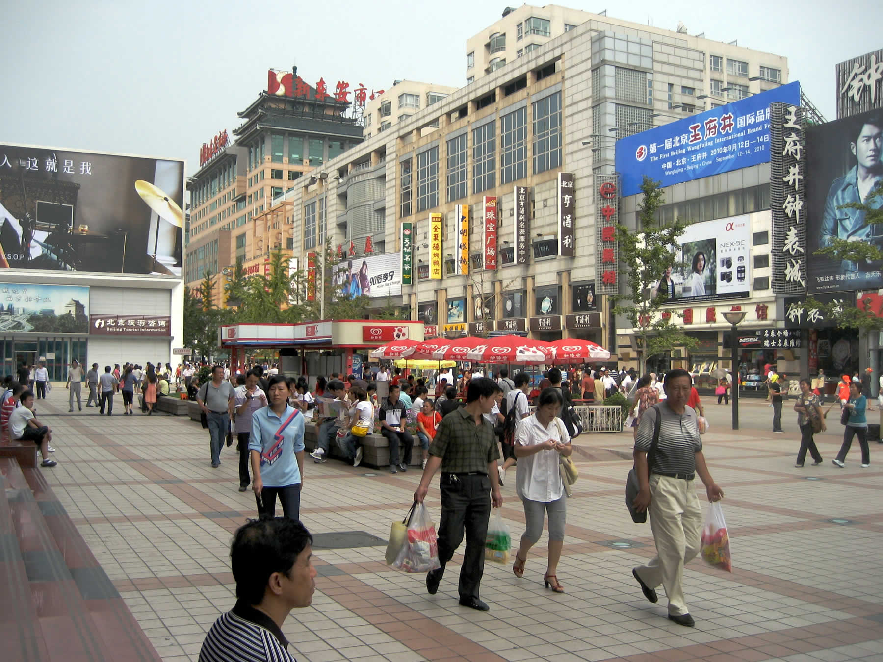 Wangfujing Dajie is a busy shopping street east of the Forbidden City in Beijing.